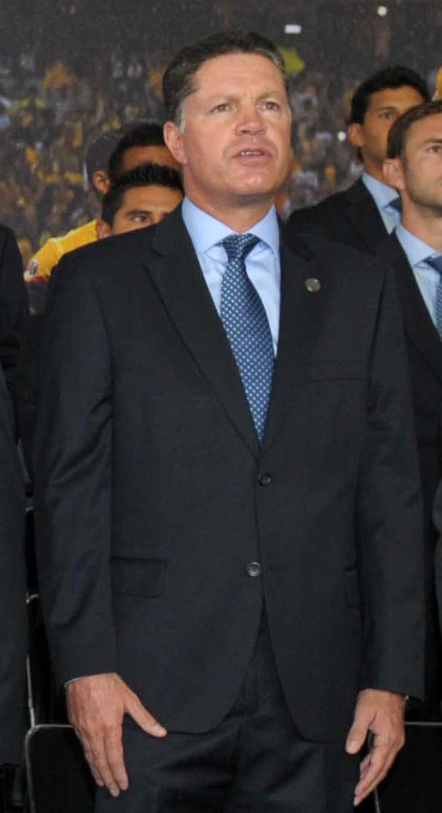 Former Mexican footballer Ricardo Pelaez